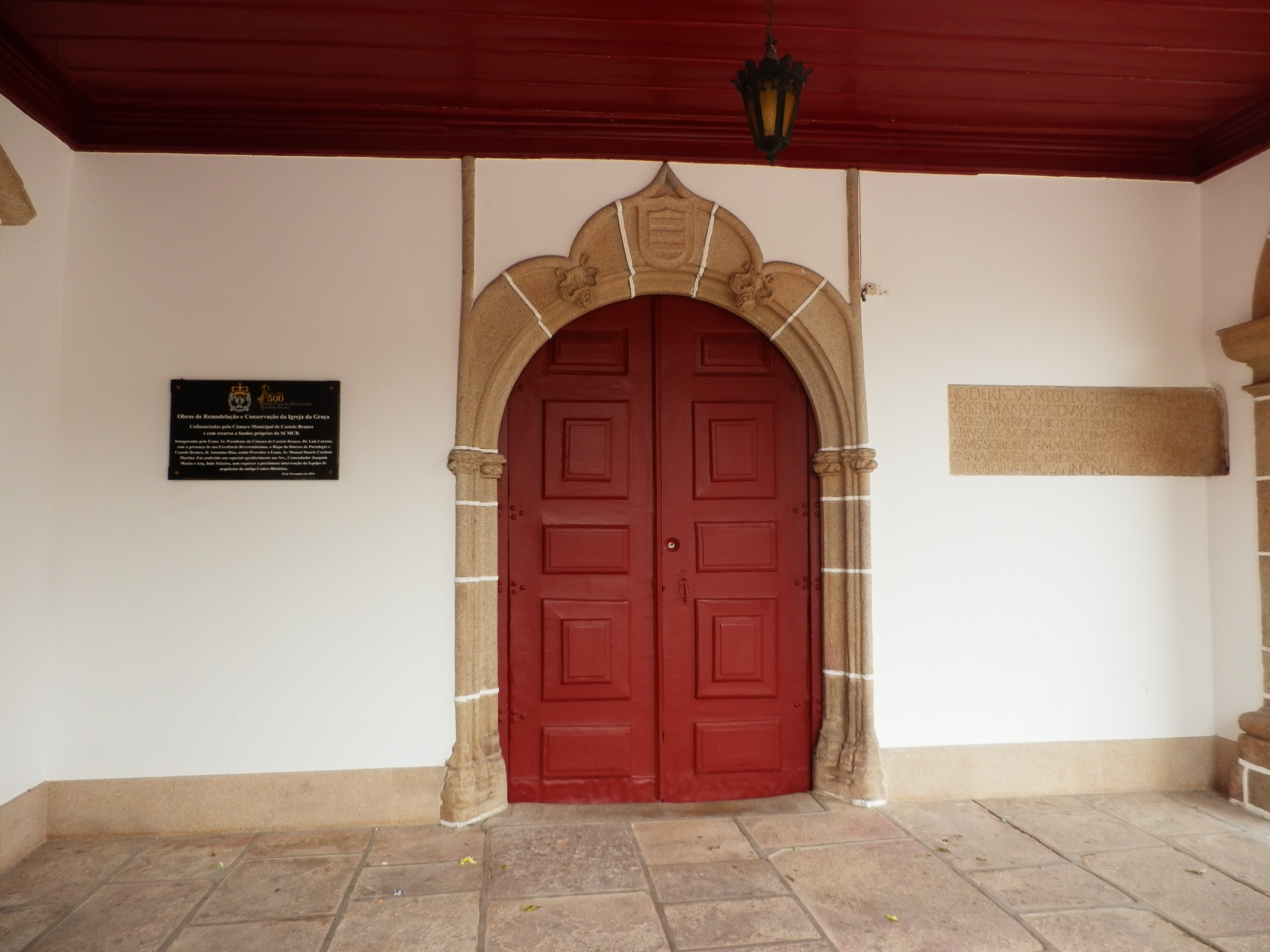 Front door of Convento da Graça